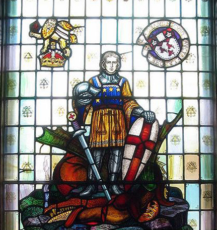 Stained Glass War Memorial in the Redpath Library building at the entrance to the Blackader-Lauterman Library of Architecture and Artl